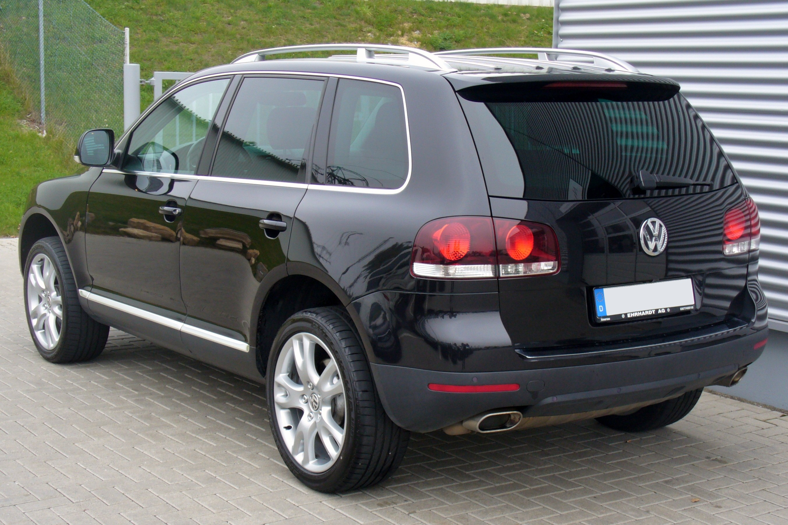 VW Touareg I